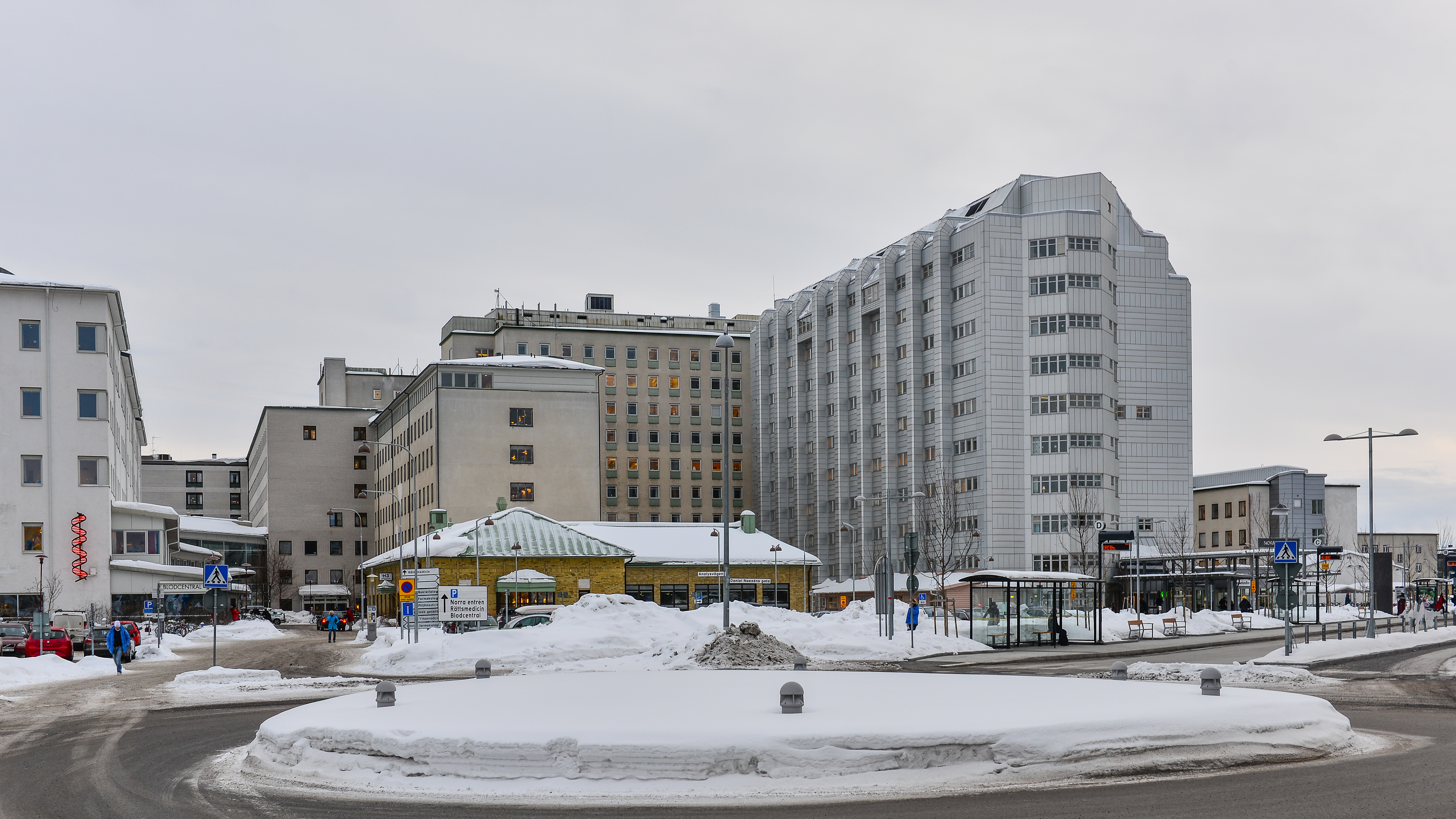 Norrland university hospital, Umeå.